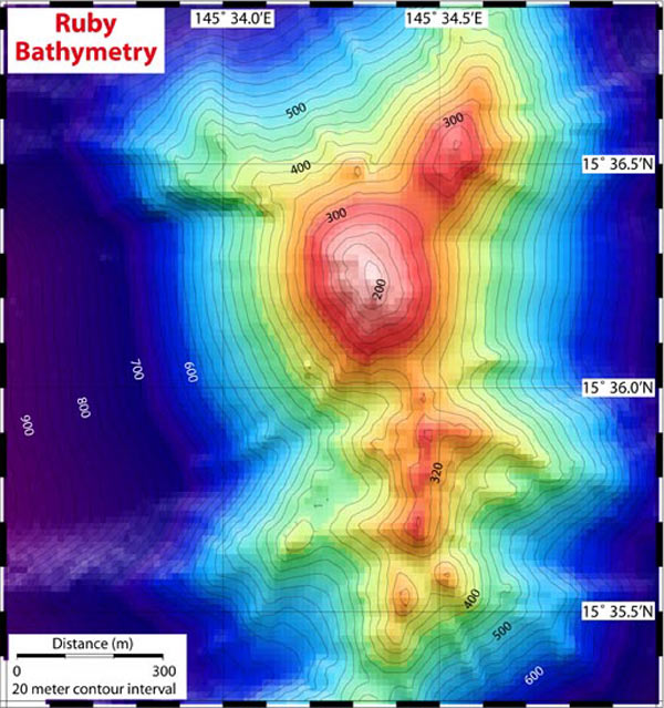 Map of the summit of Ruby volcano, the area of dive J2-194. Contour interval is 20 meters.